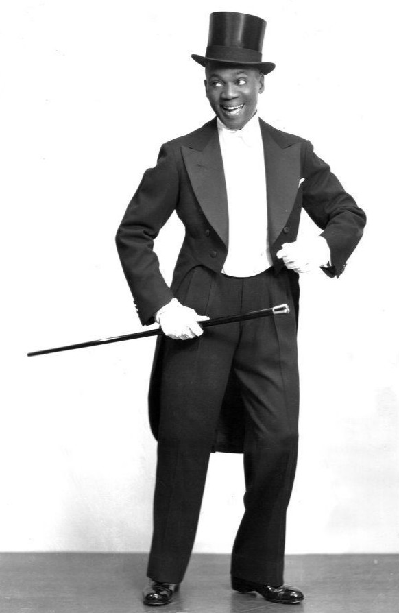 Photo of Bill "Bojangles" Robinson.